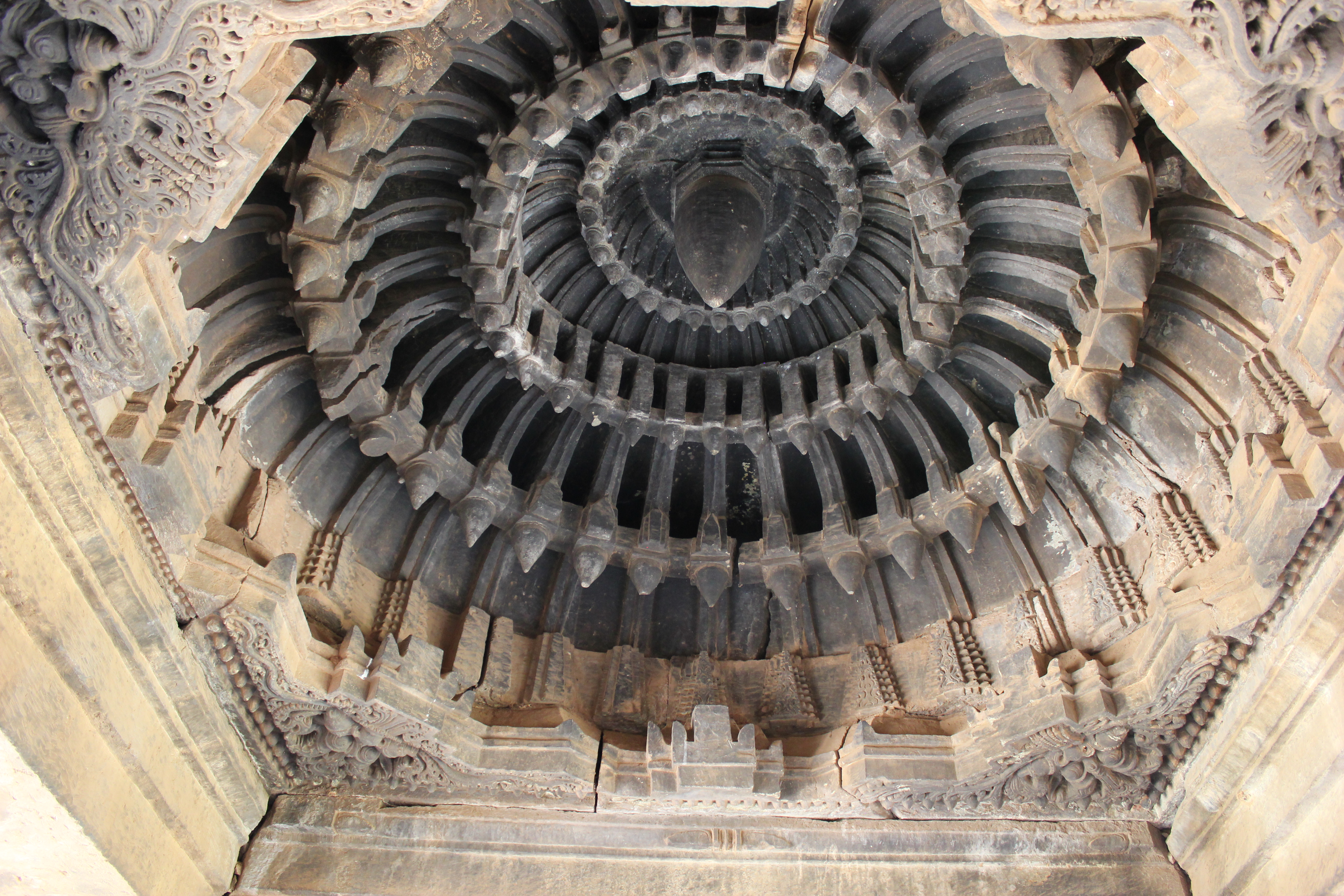 This photograph was taken by self (Dinesh Kannambadi) at the Veeranarayana temple In Belavadi, Chikkamagaluru district, Karnataka state, India. This ornate trikuta (three shrined) temple was built in 1200 C.E. by Hoysala Empire King Veera Ballala II.